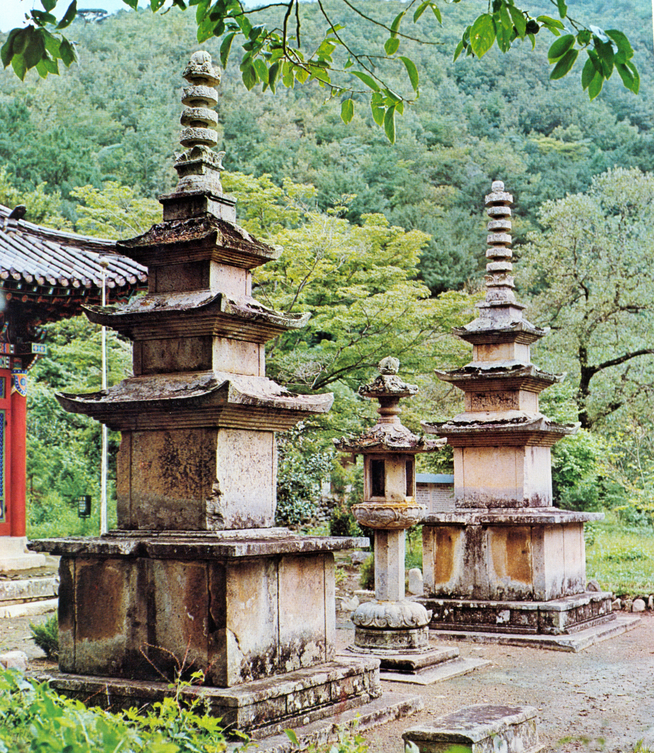 Three-story Stone Pagodas and Stone lantern at Borimsa temple in Jangheung from the Korean Silla Kingdom (57 BC – 935 AD) is the National Treasure of South Korea #44.